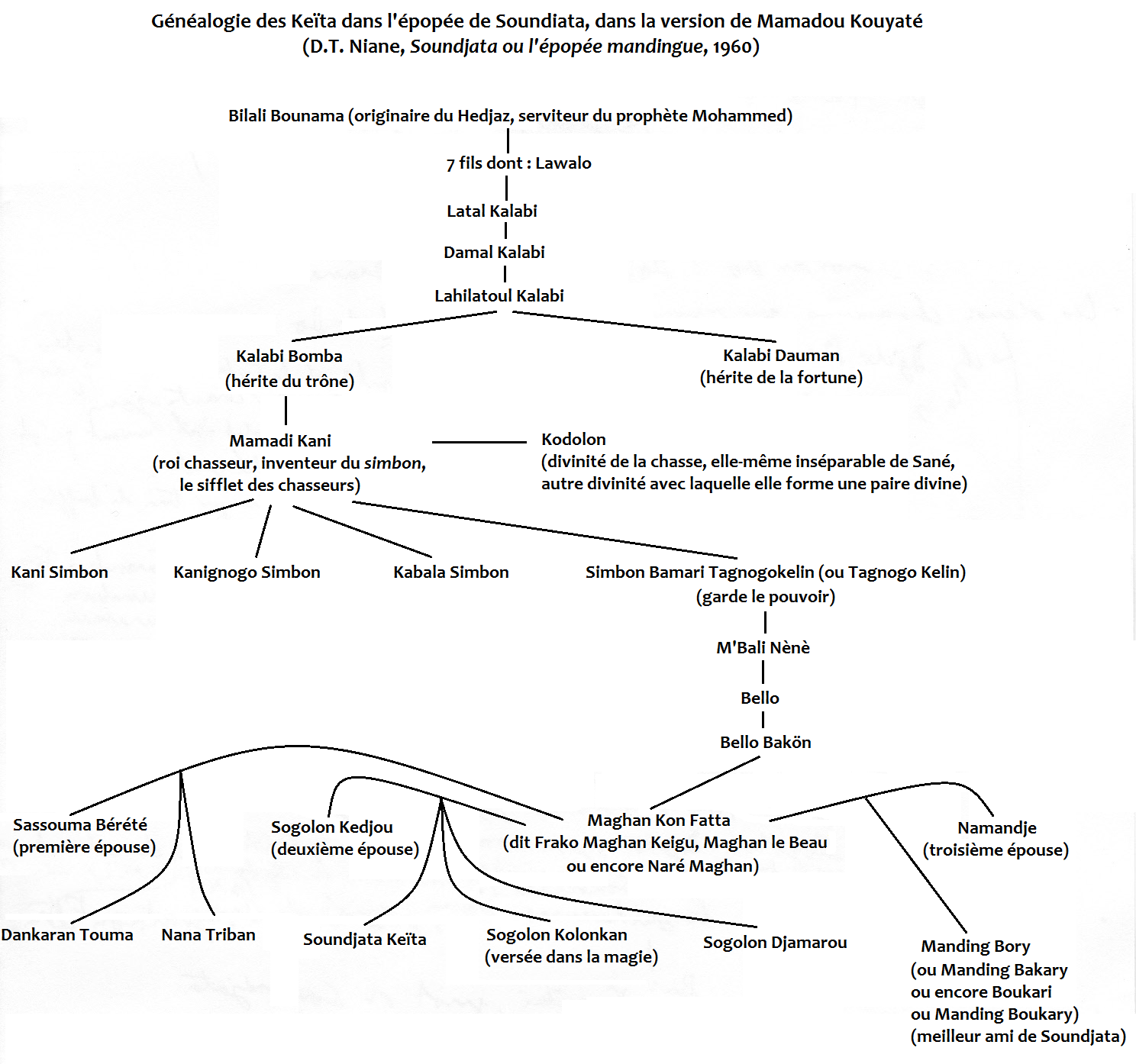 Family tree of the Keita lineage in the epic of Sundiata. Drawn from the version of the epic given by the Guinean djeli Mamadou Kouyaté and written by Djibril Tamsir Niane in "Soundjata ou l'épopée mandingue" (Paris, Présence africaine, 1960).